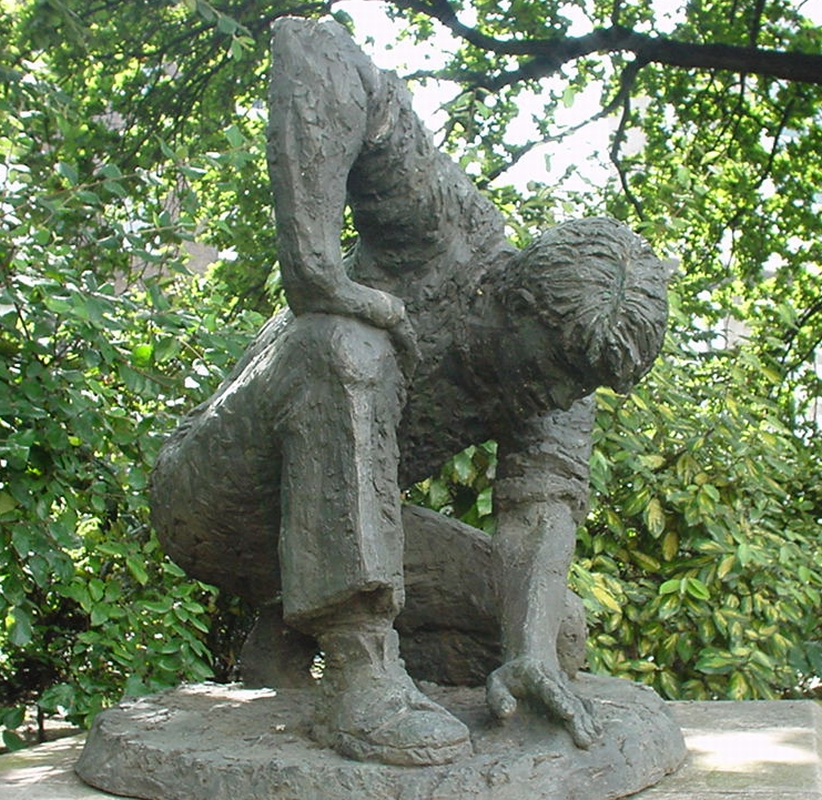 Sculpture 'The Gardener'-Orginally sited on London Wall-London